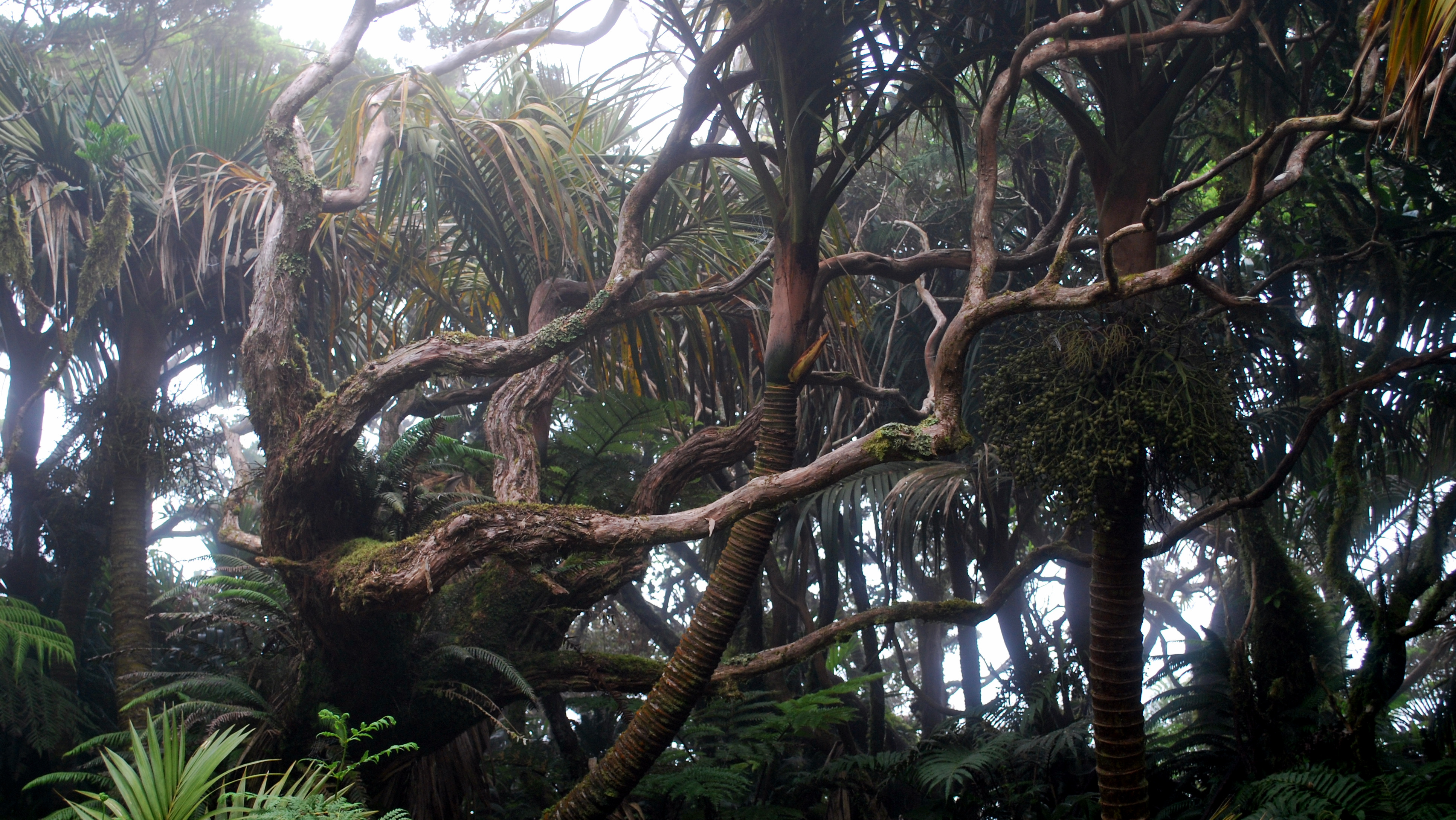 In the Clouds